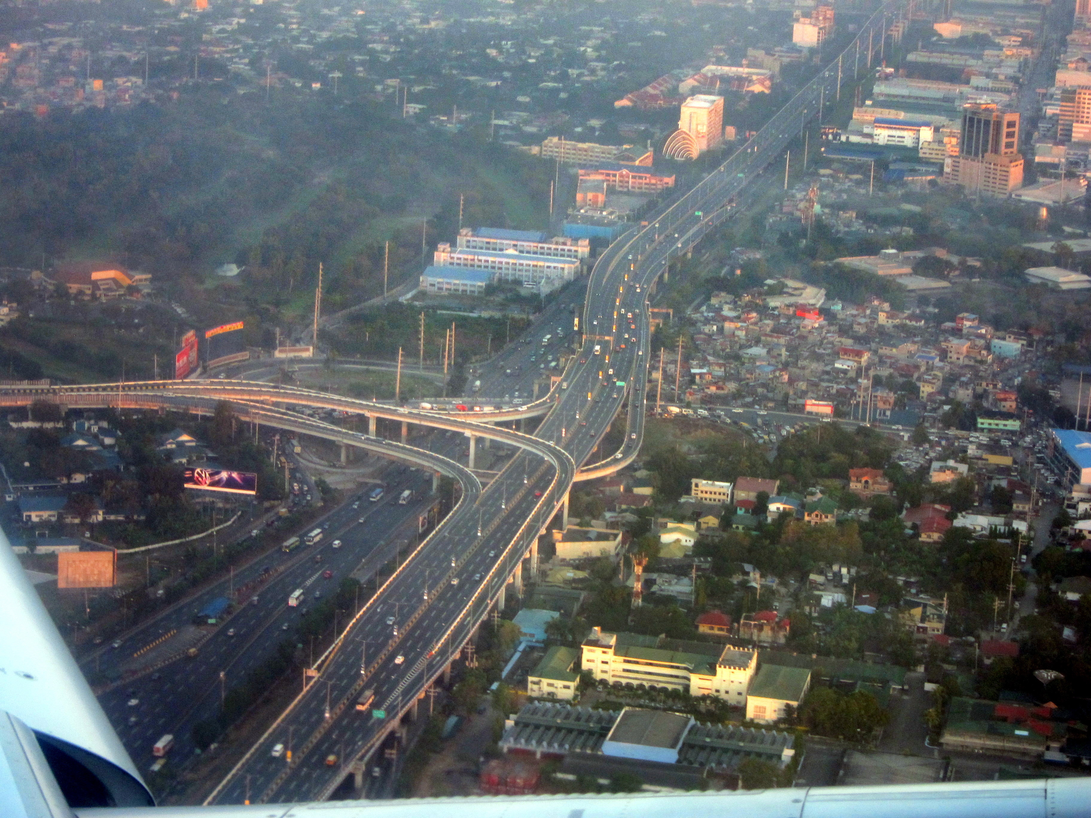 Overhead shot of the Sales Interchange, taken from a Jetstar Asia Airways Airbus A320 shortly after take-off from the Ninoy Aquino International Airport.